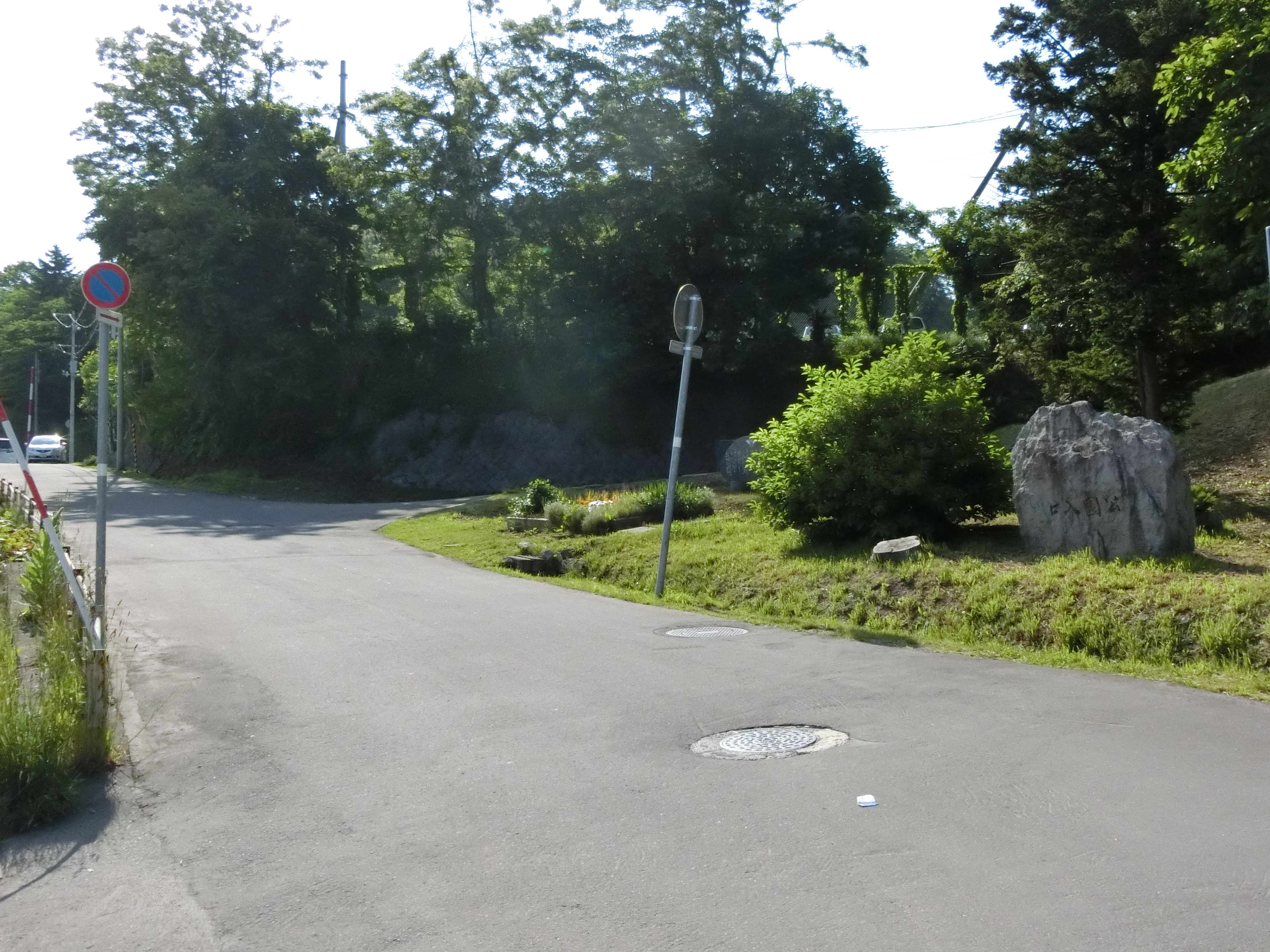 East entrance of Otaru Park in Hanazono, Otaru, Hokkaido